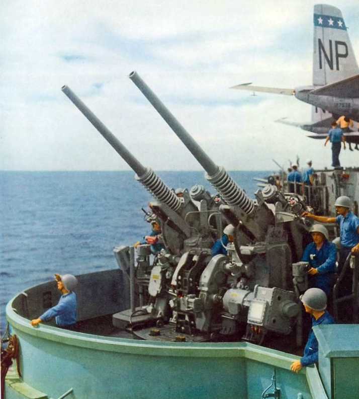 A 3in/50 (7.6 cm) Mk 33 twin mount on the U.S. aircraft carrier USS Wasp (CVA-18) after her SCB-27A conversion. Wasp had been deployed to the Western Pacific with Air Task Group 1 (ATG-1) aboard from 1 September 1954 to 11 April 1955. She then underwent the SCB-125 modernization in 1955. Two McDonnell F2H-3 Banshee fighters from composite squadron VC-3 Blue Nemesis are visible on the flight deck (the nearer one is BuNo 127538).